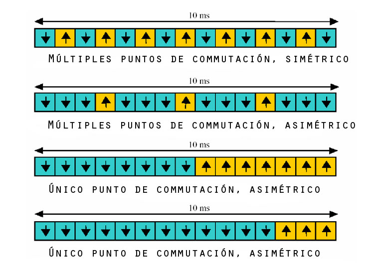 Multiplexación de los slots en TD-CDMA